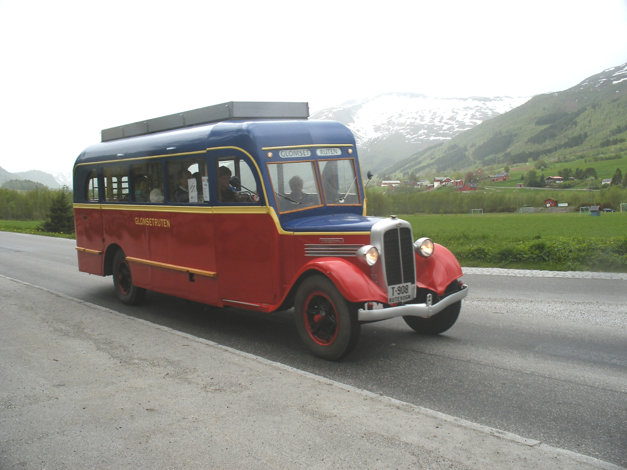 Historical bus from Norway. Federal (reg. T908 RUTEVOGN). Glomset ruten.